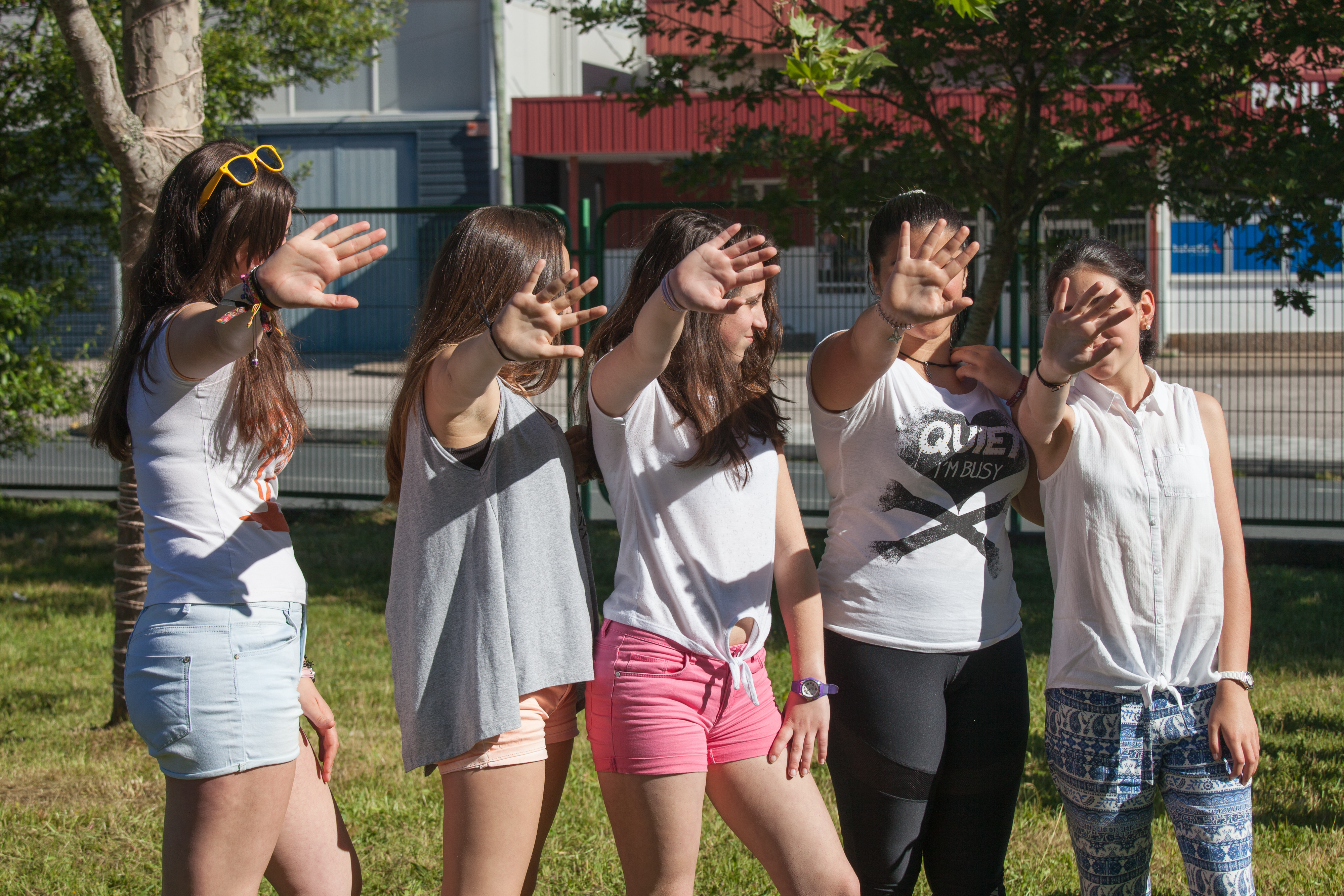 No to mistreatment of women.